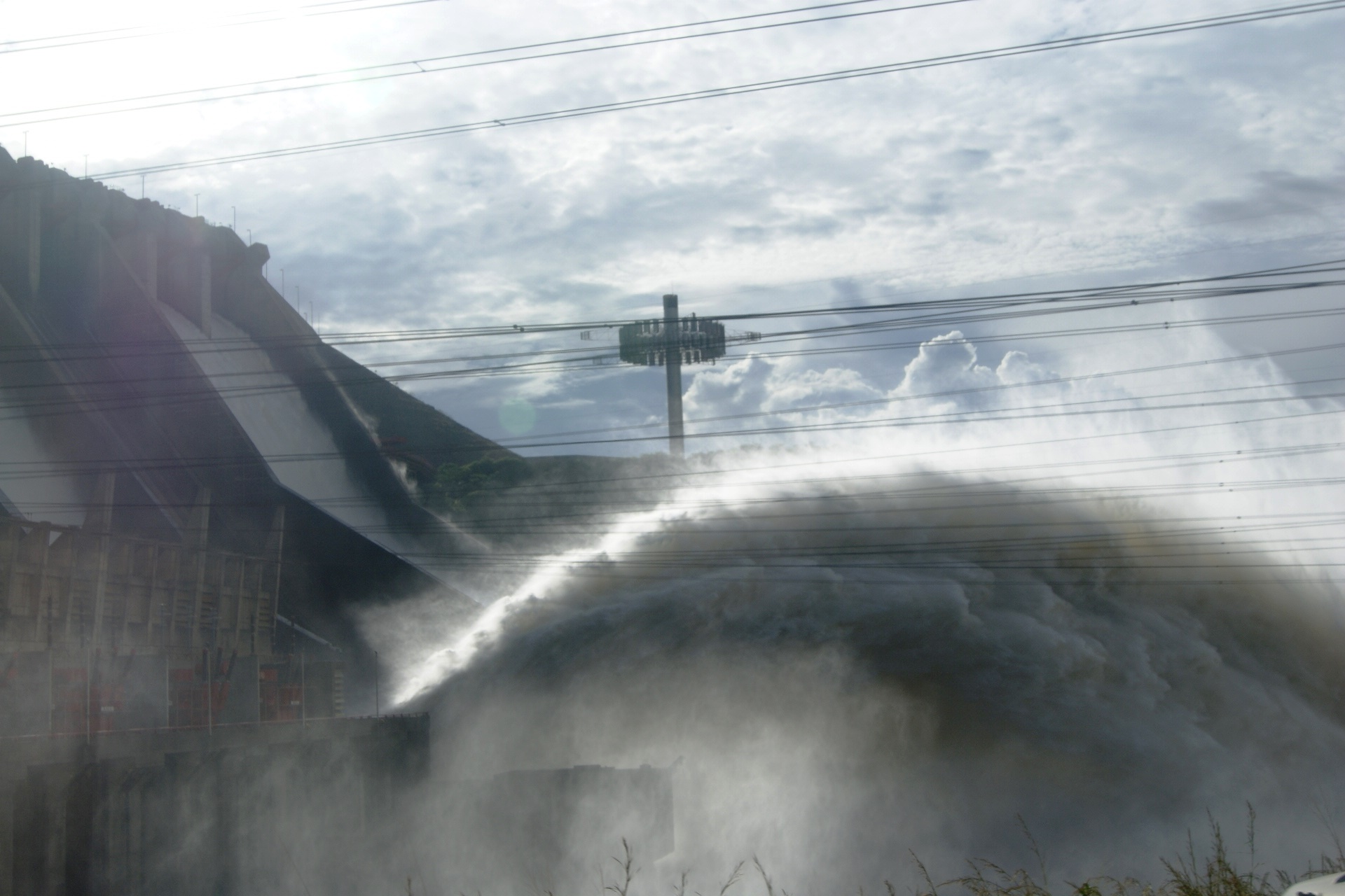 Guri Dam, Bolivar State, Venezuela